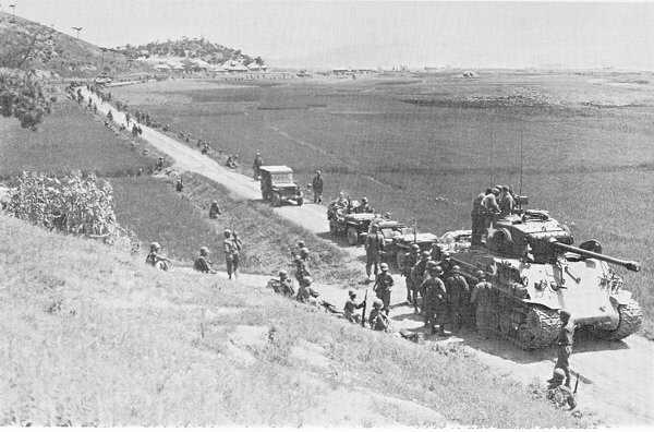 2-27th Infantry advances on a recaptured road during the battle of the Nam River in 1950. (Korean War)